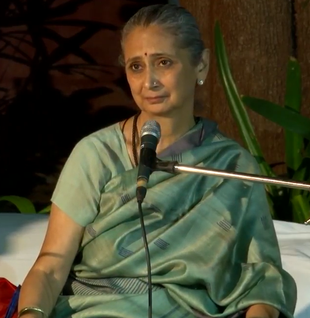 Indian classical singer Vidya Rao at Gujarati Literature Festival (GLF), Ahmedabad, December 2016